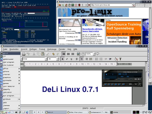 Screenshot of DeLi Linux 0.7.1